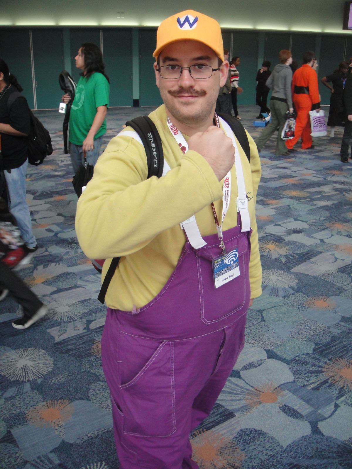 photo 2012 Pop Culture Geek taken by Doug Kline If you're interested in higher resolution versions of my images, contact me via my profile page.